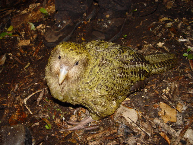 Pura, a 1-year-old Kakapo (Strigops habroptila) on Codfish Island.